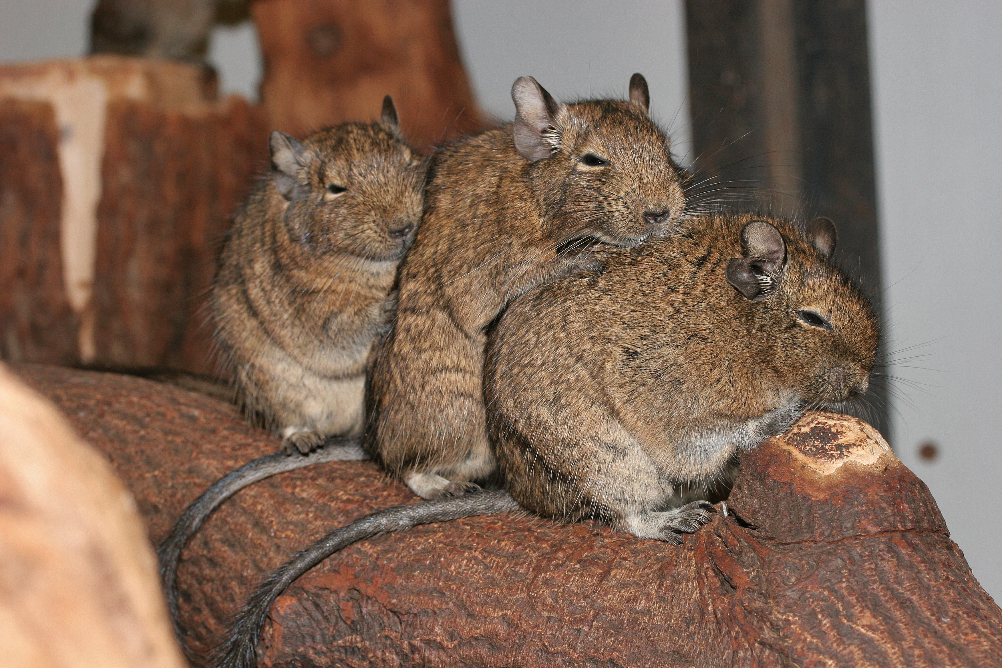 Degu at Artis Zoo, Amsterdam, Netherlands.